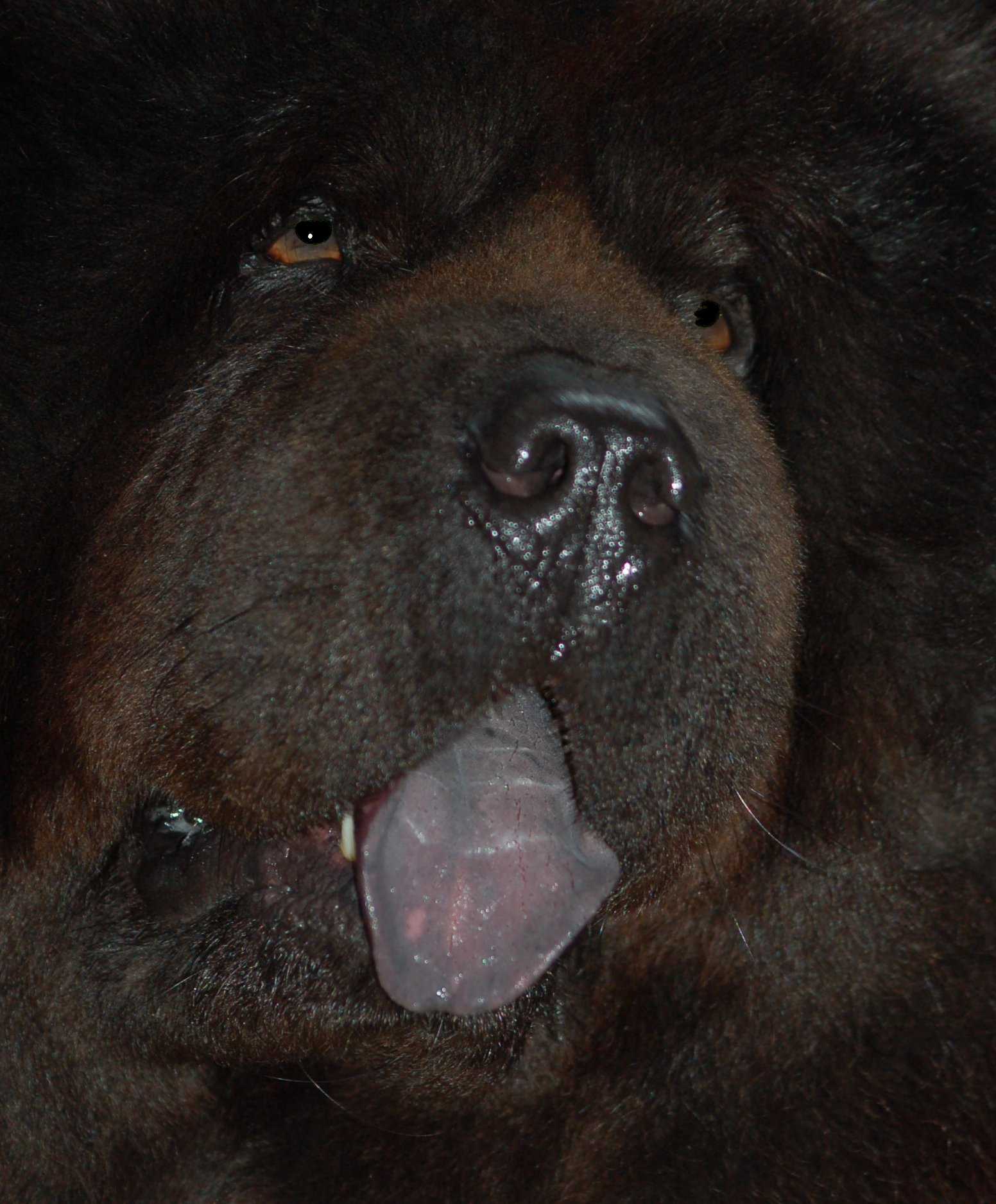 Chow Chow during dogs show in Katowice, Poland